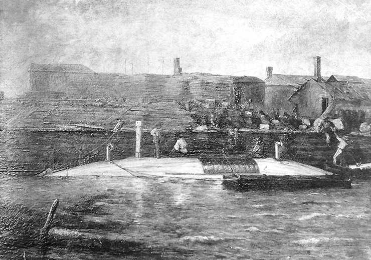 A photograph of a painting, by an unidentified artist, depicting CSS David, a torpedo boat, at Charleston, South Carolina, in 1863.